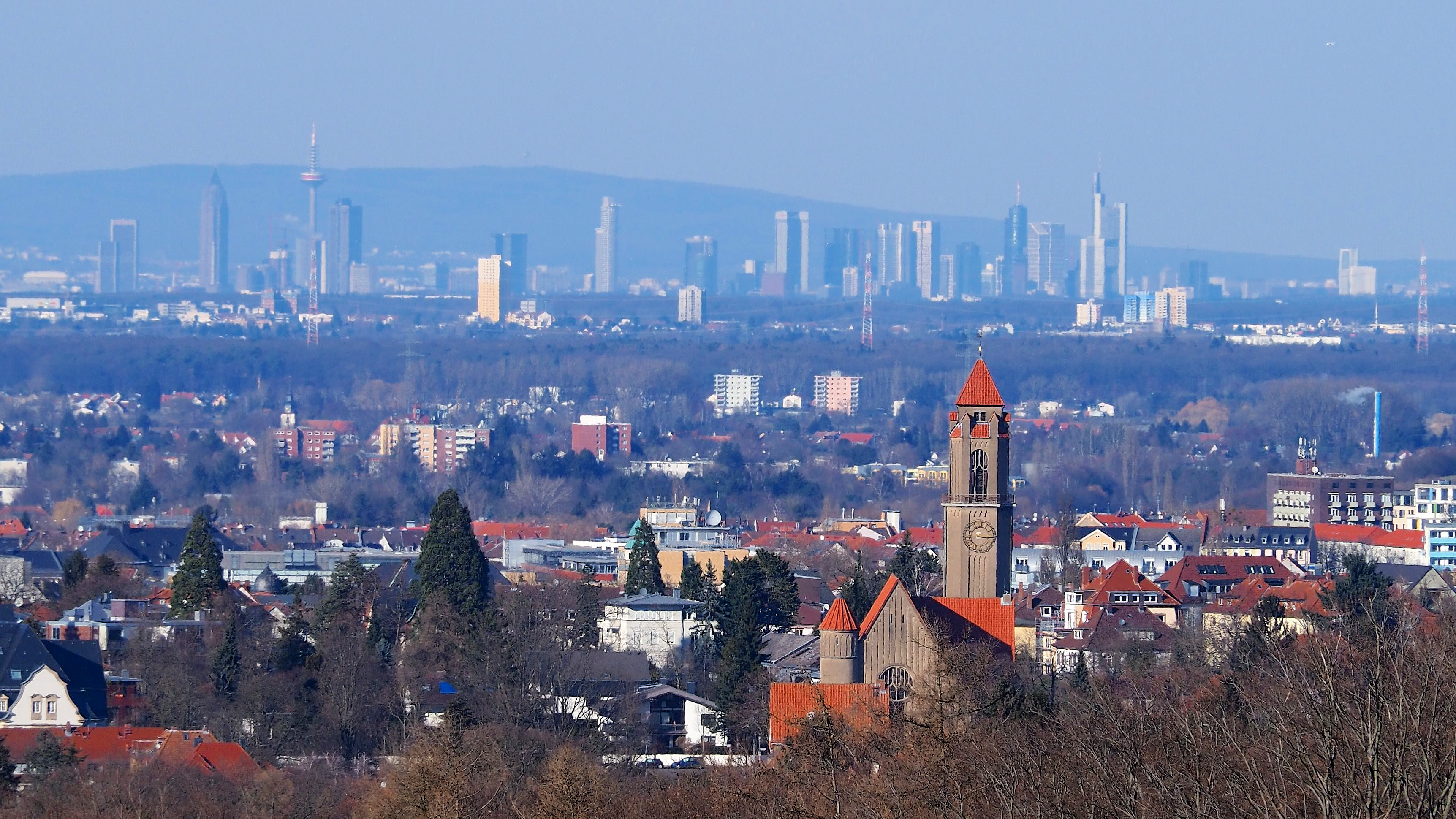 View from Ludwigshoehe on Darmstadt with Frankfurt skyline.